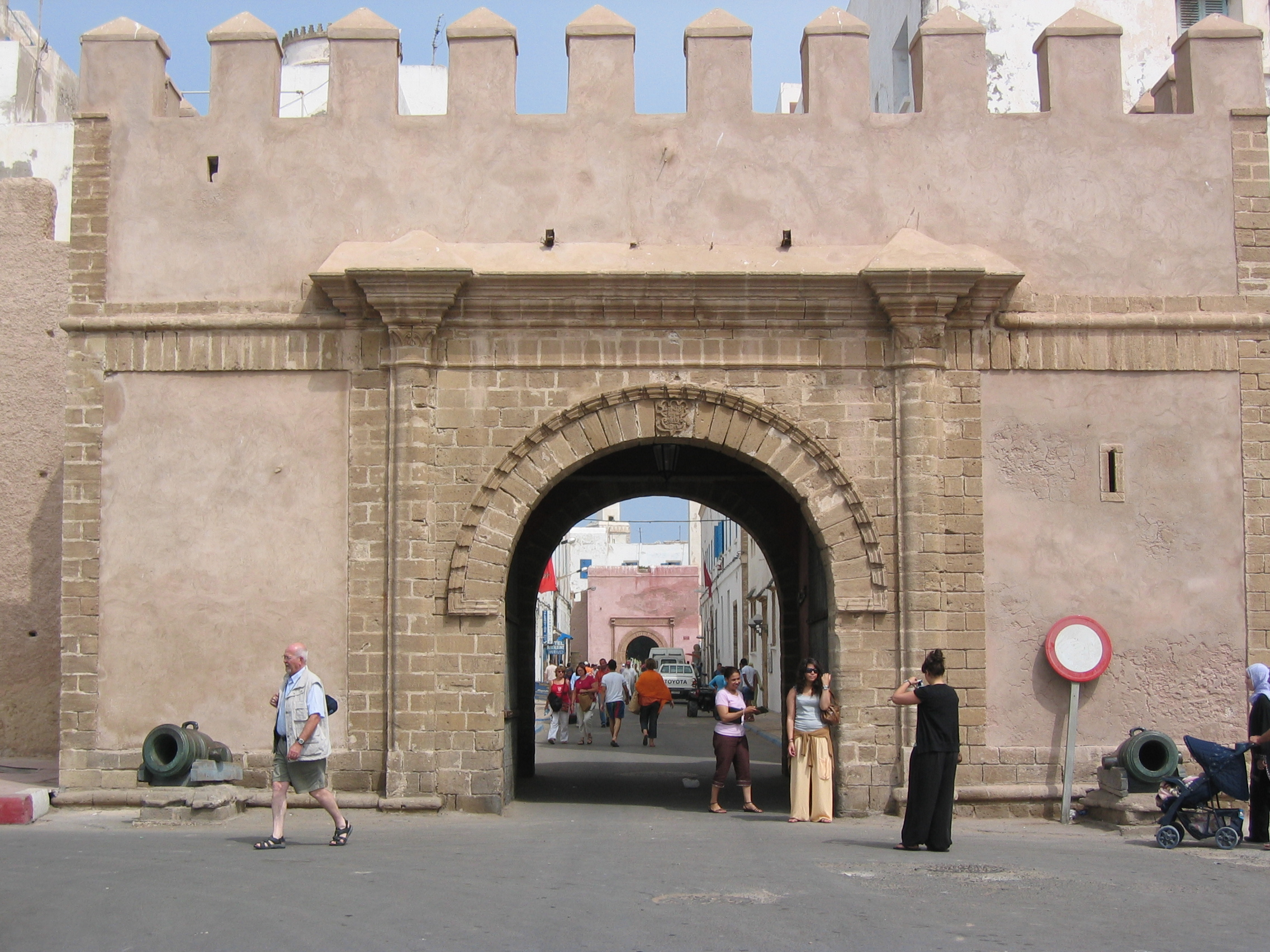 Bab Sba, door to the medina